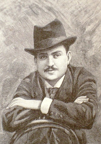 Summary: Drawing of Rosario Garibaldi Bosco, extracted from the magazine “Rivoluzione e insurrezione in Sicilia” from 1894.